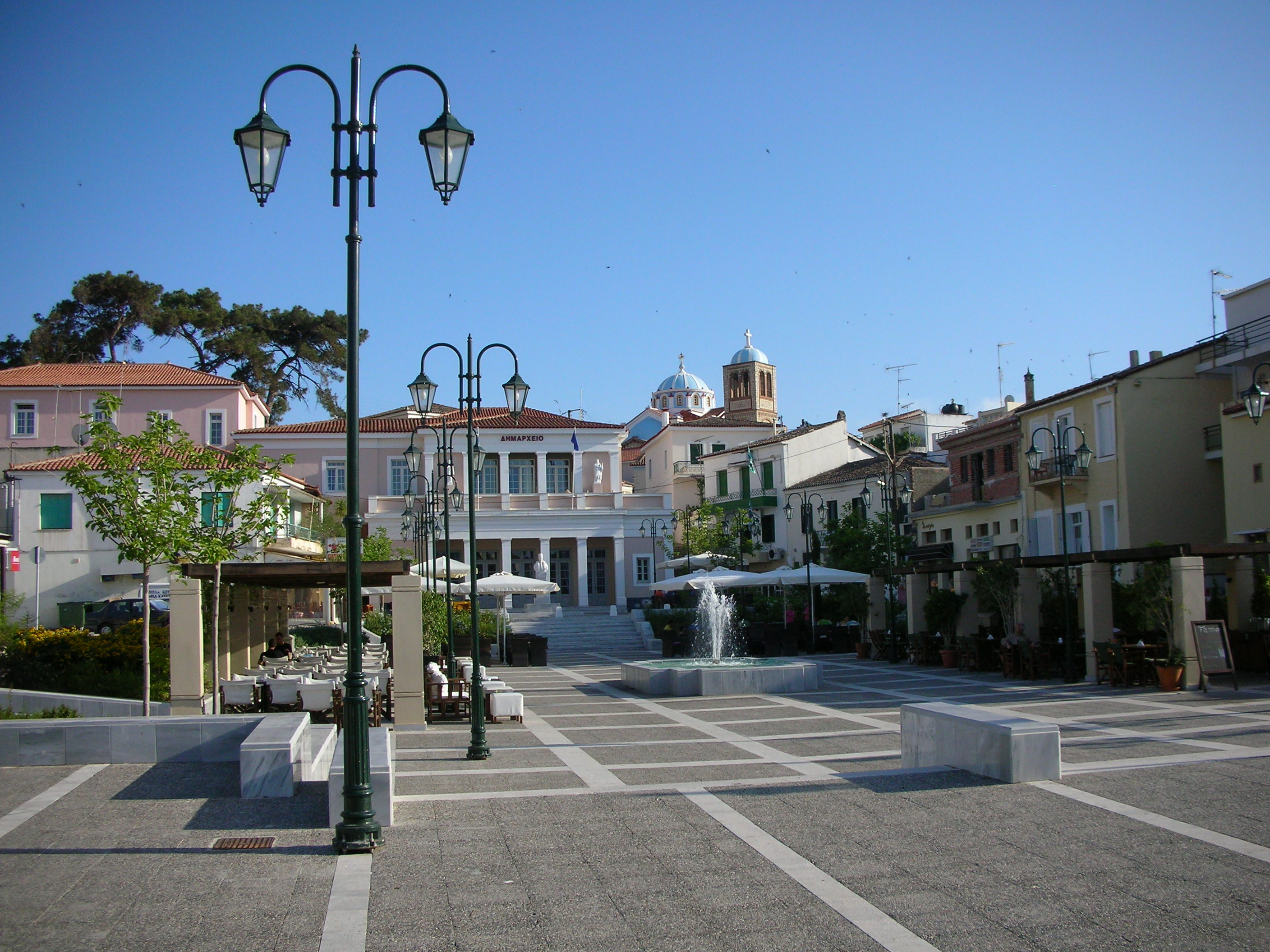 Picture of the town of Karlovasi on Samos in Greece